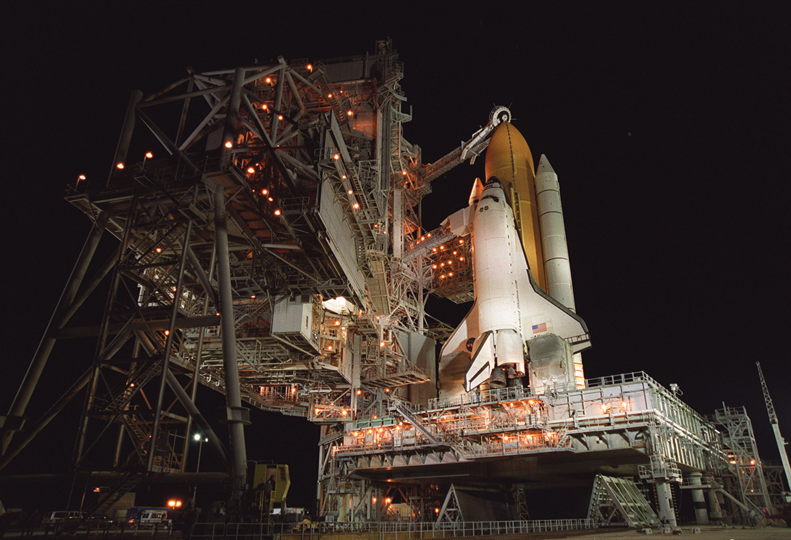 Space Shuttle Atlantis is revealed after rollback of the Rotating Service Structure. Extended to the side of Atlantis is the orbiter access arm, with the White Room at its end. The White Room is an environmentally controlled area that provides entry for the crew into Atlantis’s cockpit. Above the yellow-orange external tank is the Gaseous Oxygen Vent Arm, with the “beanie cap” vent hood raised. Before cryogenic loading, the hood will be lowered into position over the external tank vent louvers to vent gaseous oxygen vapors away from the Shuttle. Atlantis is carrying the U.S. Laboratory Destiny, a key module in the growth of the International Space Station. Destiny will be attached to the Unity node on the Space Station using the Shuttle’s robotic arm. Three spacewalks are required to complete the planned construction work during the 11-day mission. Launch is targeted for 6:11 p.m. EST and the planned landing at KSC Feb. 18 about 1:39 p.m. This mission marks the seventh Shuttle flight to the Space Station, the 23rd flight of Atlantis and the 102nd flight overall in NASA’s Space Shuttle program.